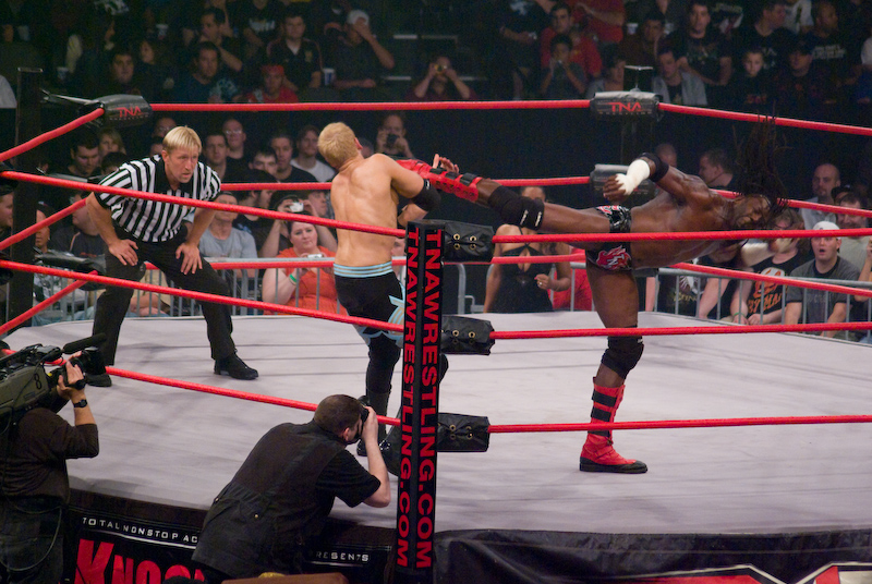 Booker T executing a kick on Christian Cage at the TNA PPV "Bound to Glory IV"